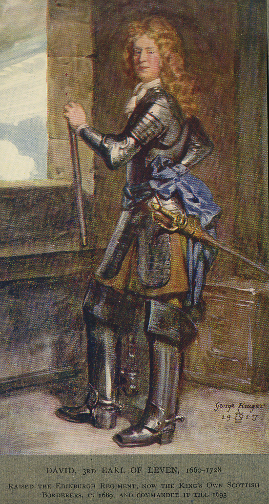 David Melville, 3rd Earl of Leven (1660-1728)